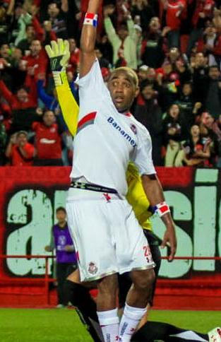 Panamanian footballer Luis Tejada